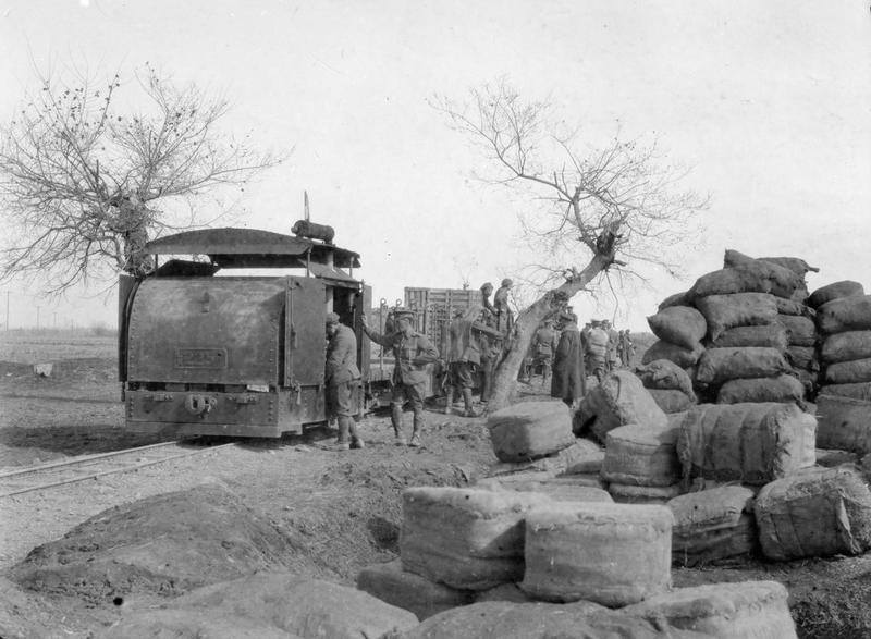 Simplex petrol locomotive on a bridge of the military Decauville line (600 mm gauge) Sarakli-Stavros in Central Makedonia (Greece) during WW1